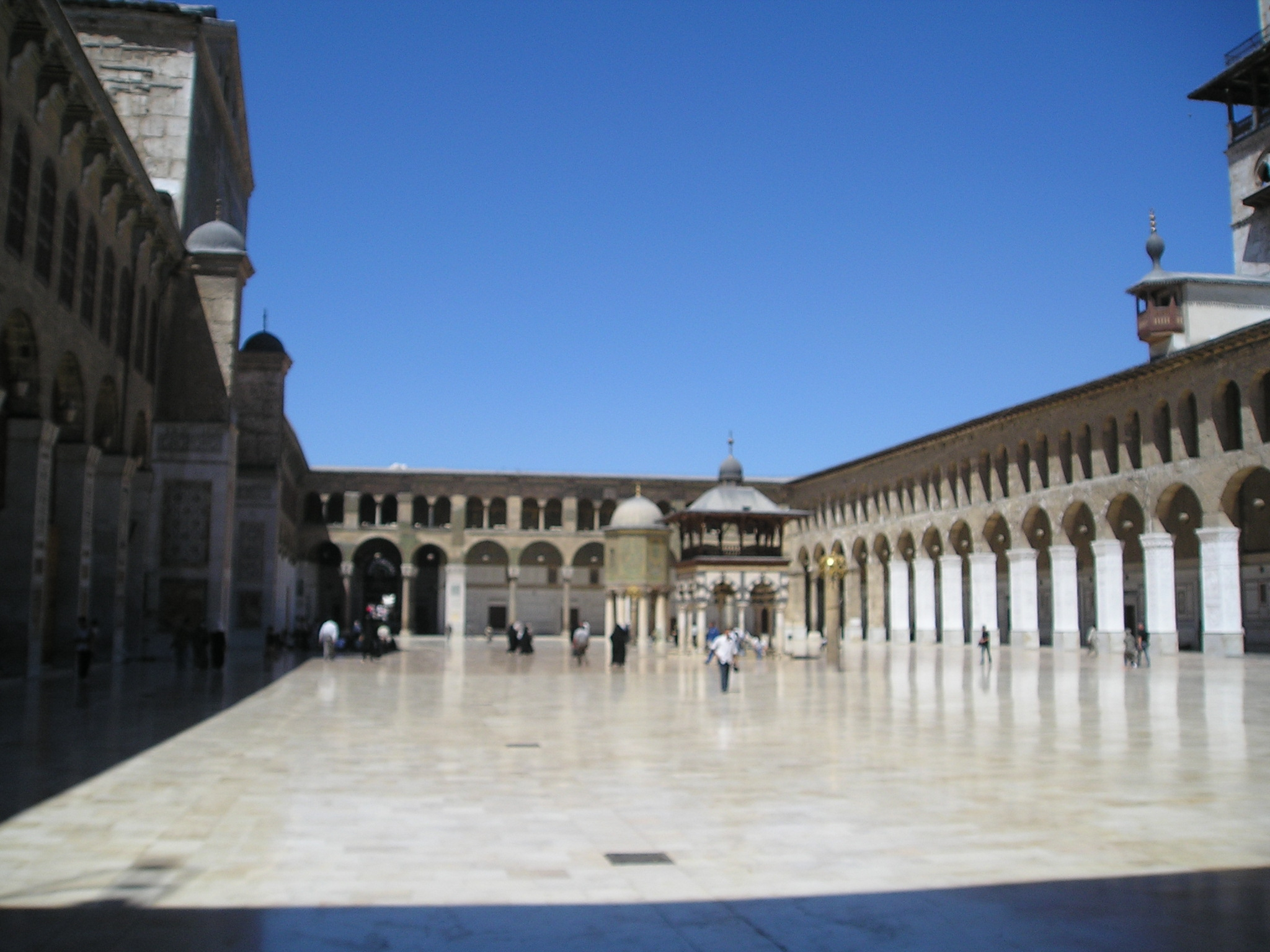 Damascus, Syria - Umayyad Mosque: a view of the courtyard from east to west